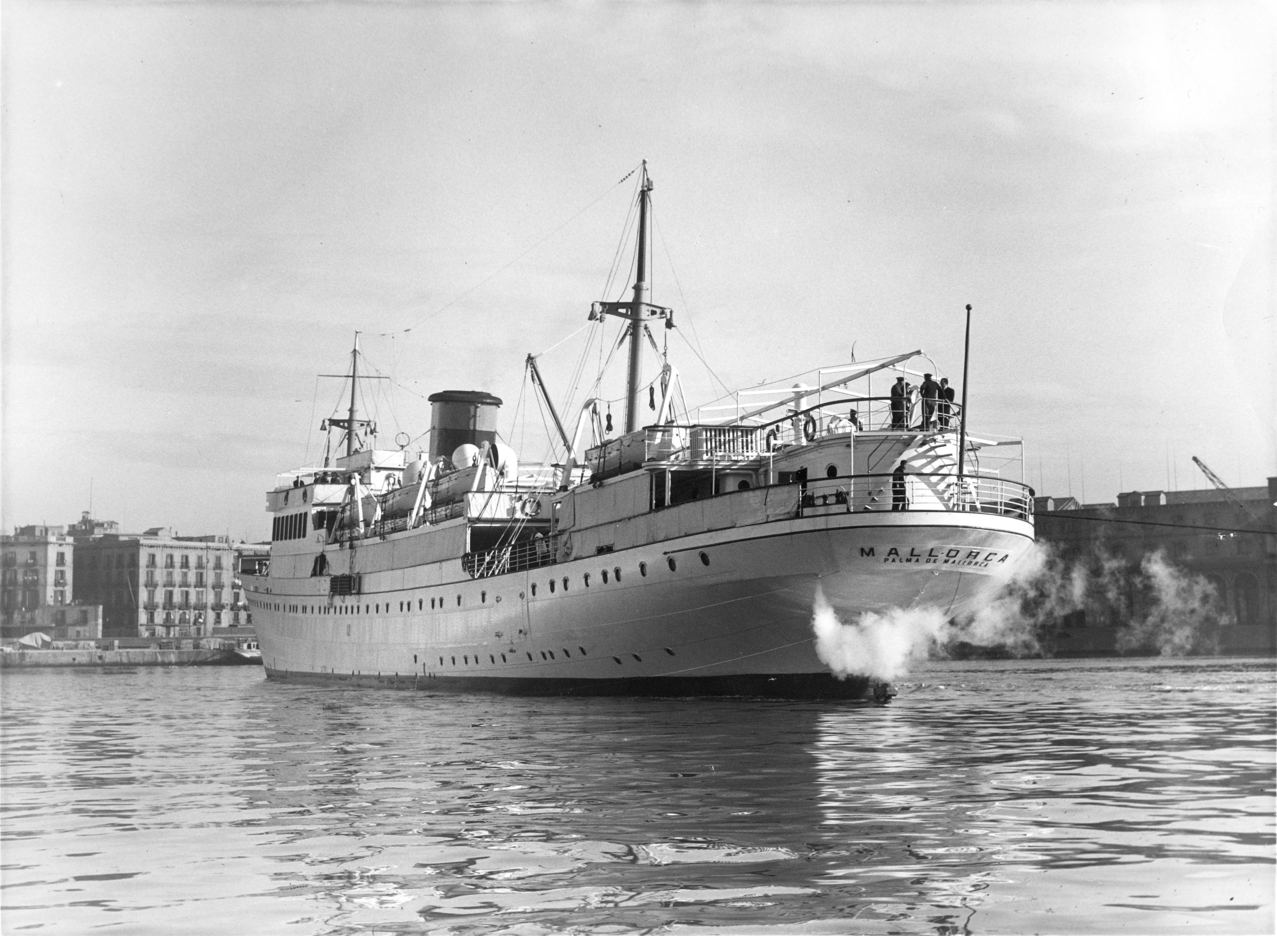 Passenger vessel Mallorca built at Shipyard N. Odero fu Aless & Co. in Sestri Ponente (Yard No. 275). Delivered November 1914 to Islena Maritima Cia. Mallorquina de Vapores in Palma de Mallorca. 1930 transferred to Cia. Trasmediterranea in Palma de Mallorca, gutted by Fire 1969, broken up March 1974 at Aguilar y Peris in Burriana. IMO 5218482